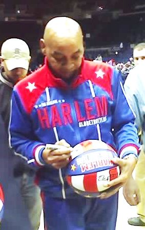 Taken at Globe trotters game by Howard Schoenfeld